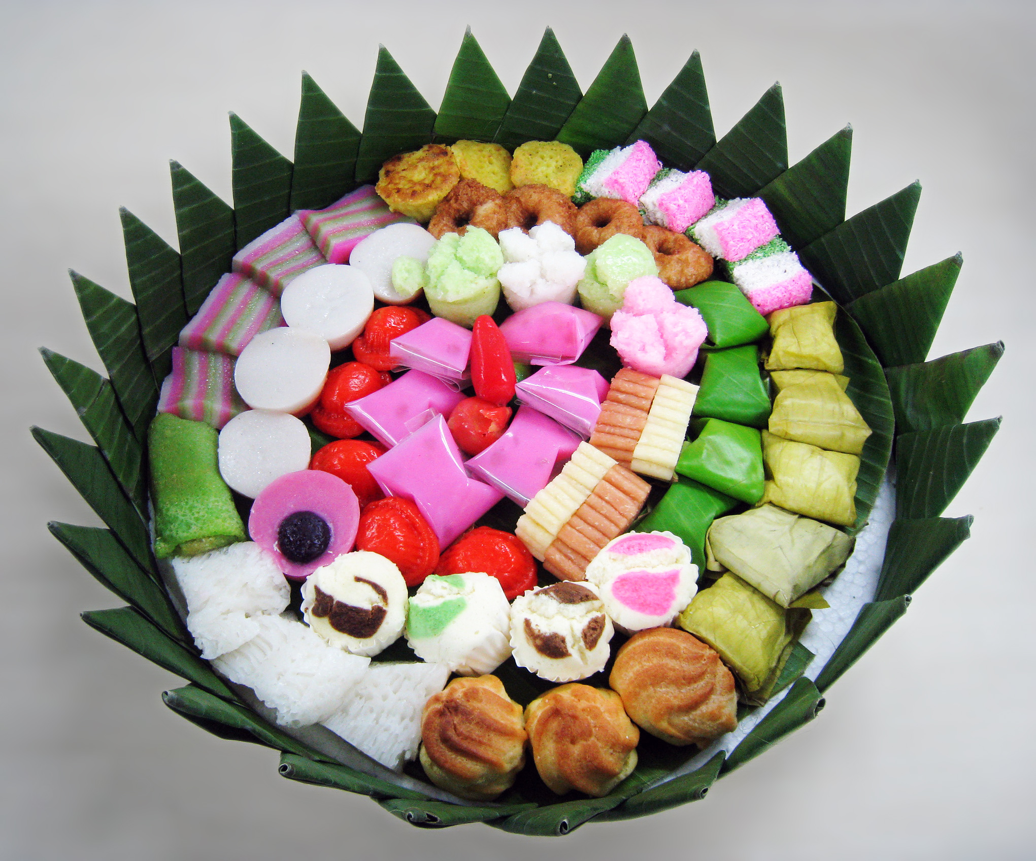 Jajan Pasar (Indonesian for "market munchies"), assorted colorful Indonesian traditional cakes (kue) served during festivities. The delicacies are kue dadar gulung, kue lapis, bika ambon, kue talam, nagasari, kue mangkok, kue ku, kue bugis, kue cucur, getuk lindri, bolu kukus, putu mayang, kue sus, etc. This version was edited to remove distracting detail from the background.